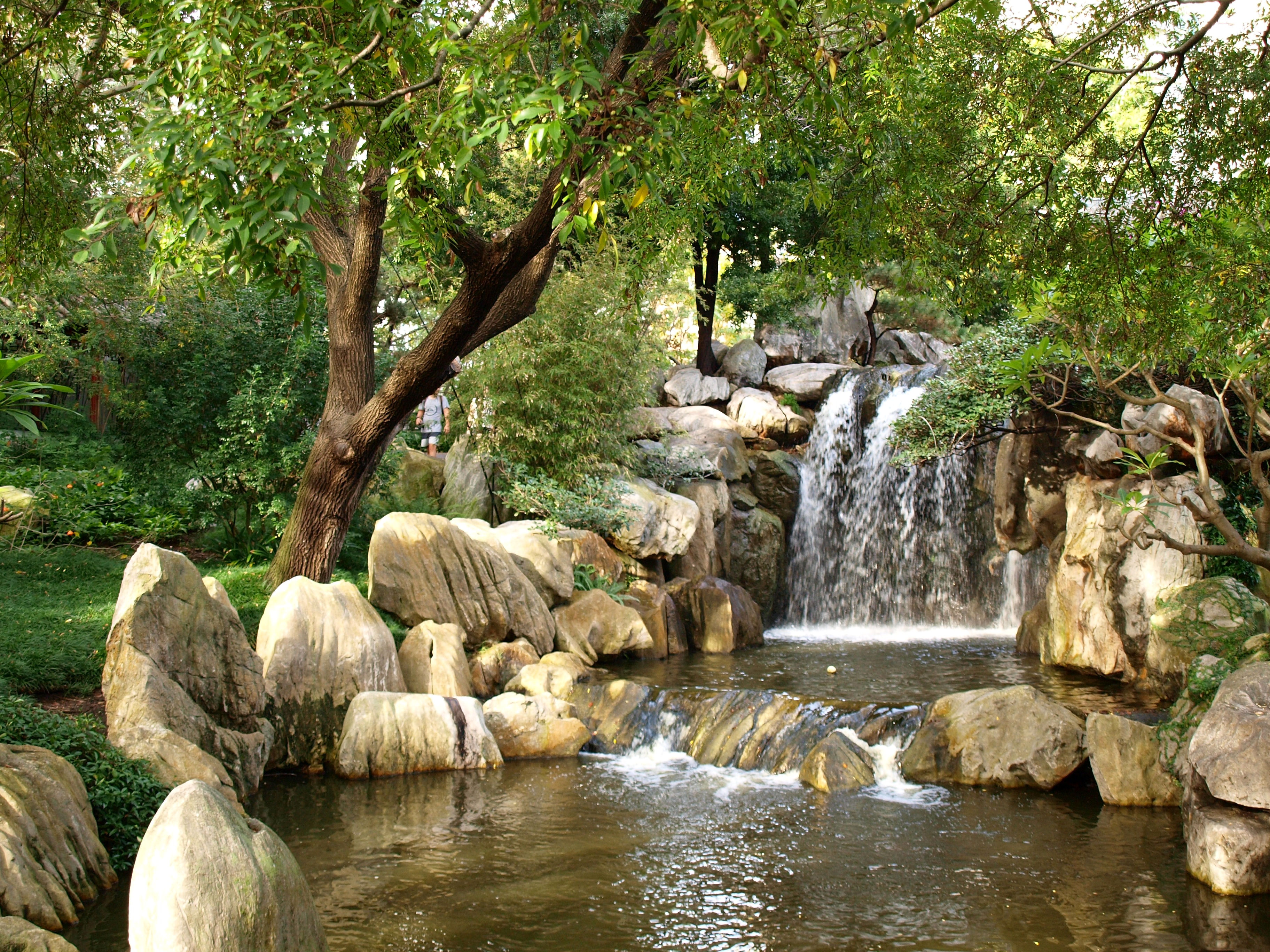 Chinese Garden in Sydney